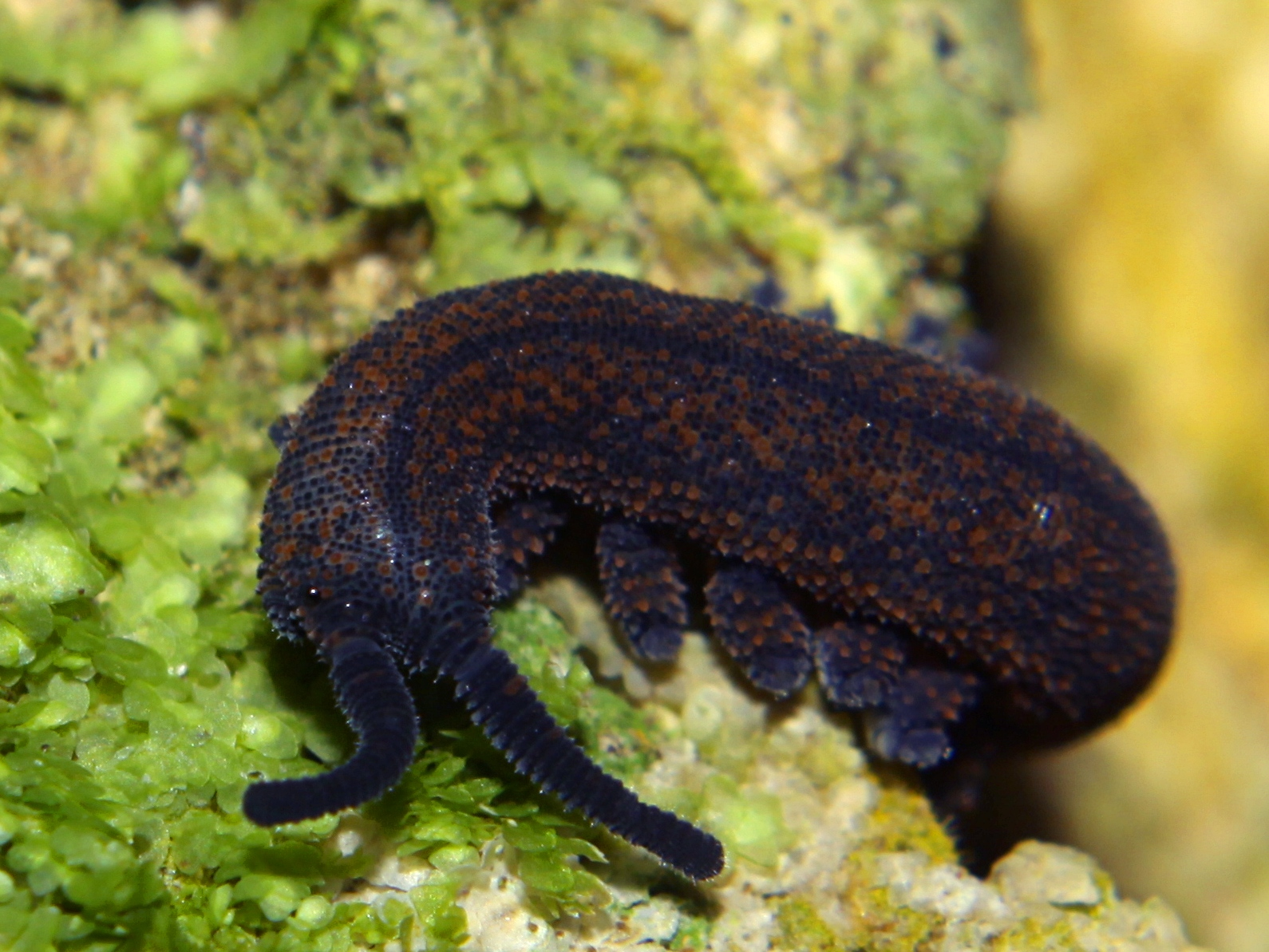 These all tend to be called Peripatus in New Zealand, I think this one is in fact Peripatoides novaezealandiae. Found on a damp tree at night in regenerating forest. Karori, Wellington, New Zealand.